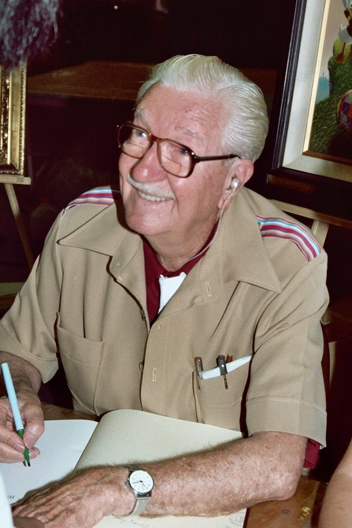 Picture of Carl Barks depicted person: Carl Barks (age: 81)